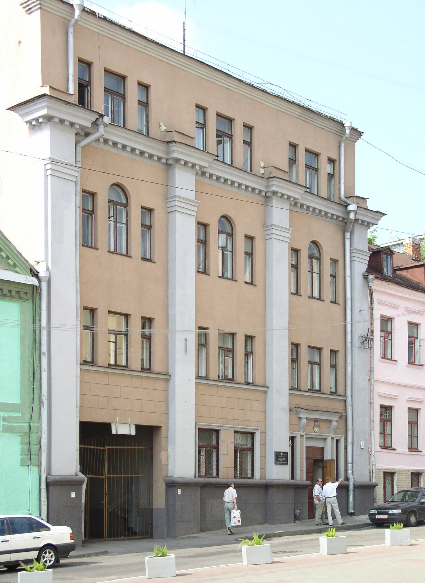 Revolutionary street, 8. Minsk, Belarus.